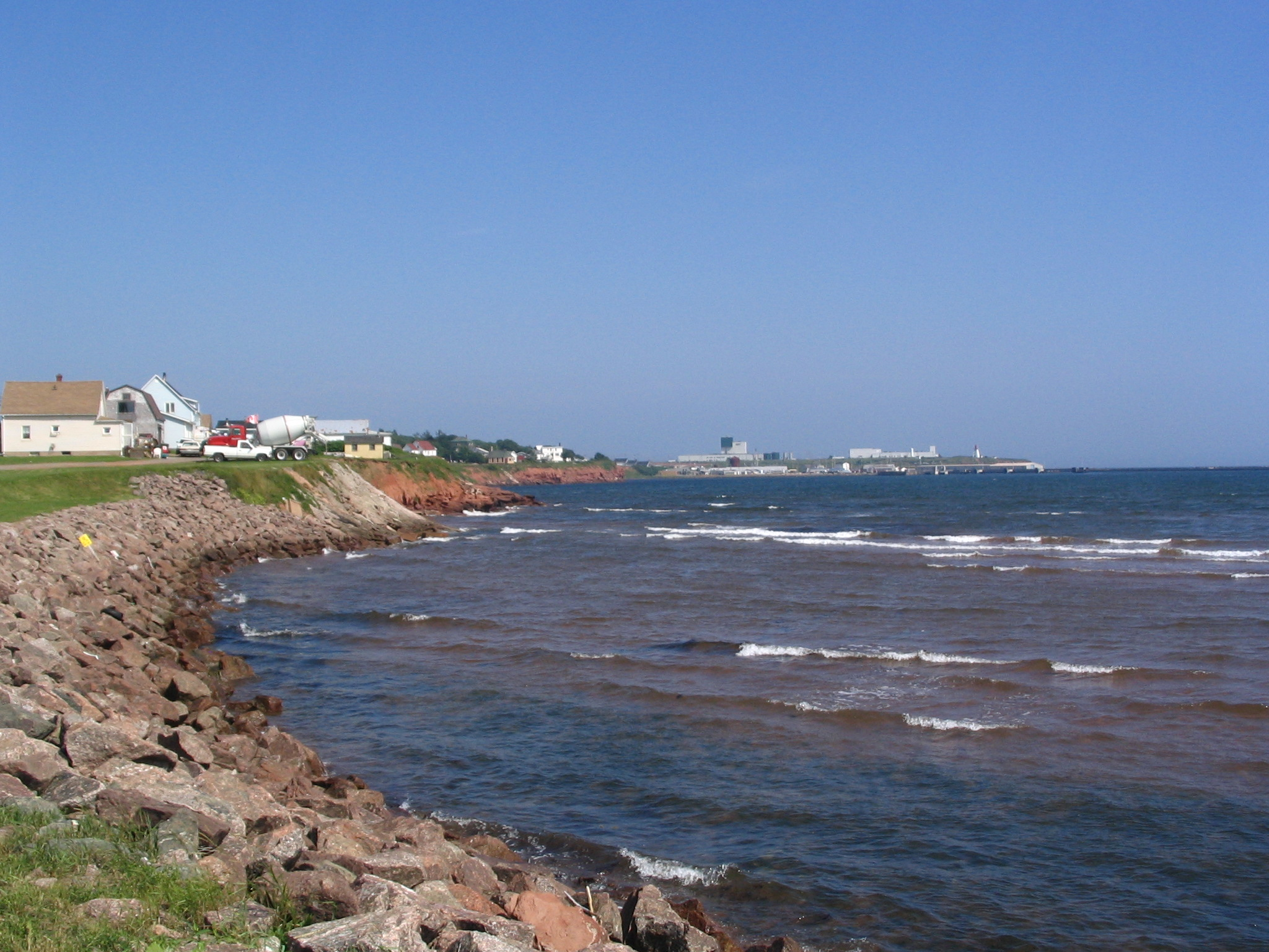 A view of Souris, Prince Edward Island. Photo taken form the provincial park.